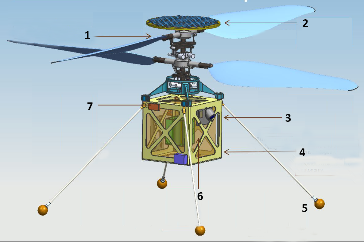 Mars Helicopter Scout. Diagram without labels